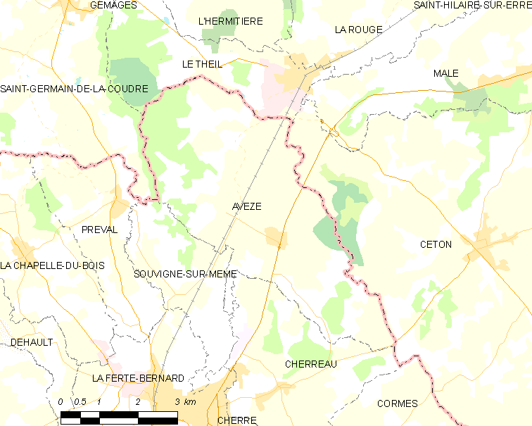 Map of French municipality